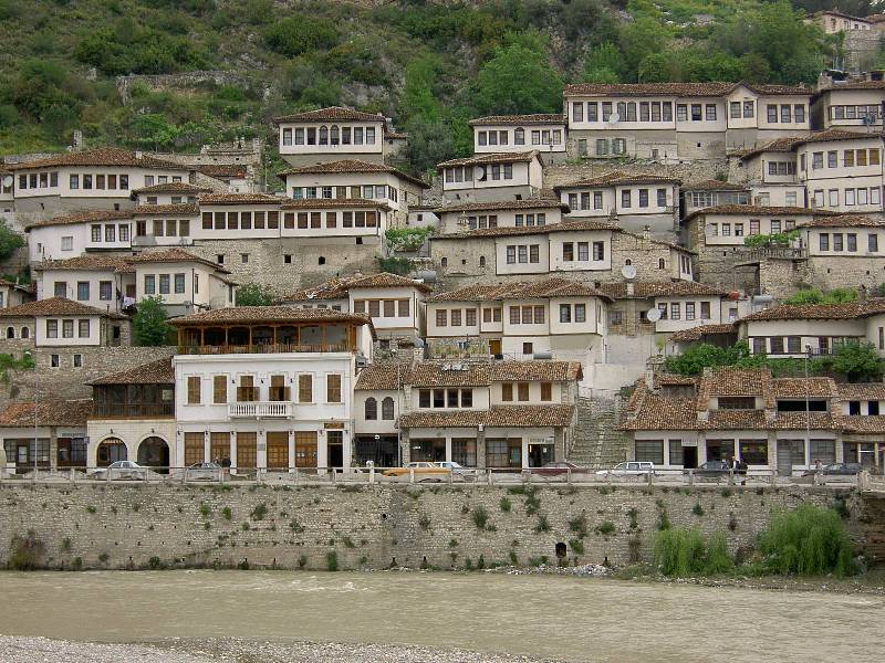 The city of Berat in Albania